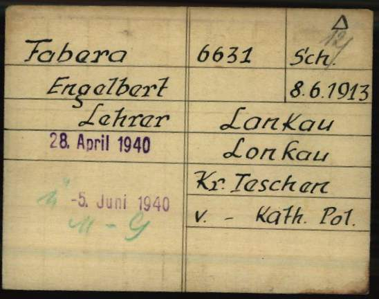 Registration card of Engelbert Anielin Fabera as a prisoner at Dachau Nazi Concentration Camp. Date stamped next to penciled note, "M-G", is date of transfer to Mauthausen-Güsen Concentration Camp